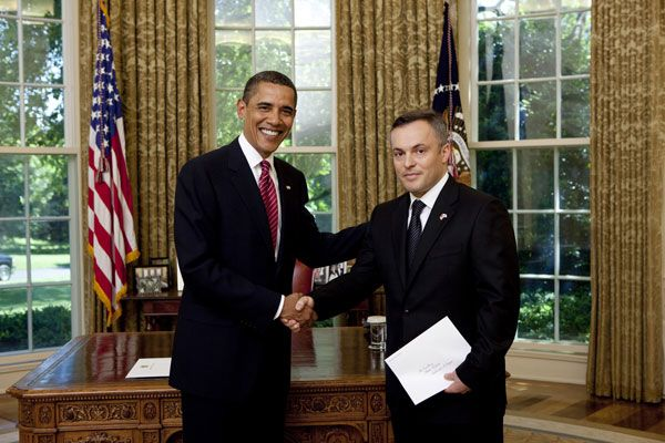 President Barack Obama welcomes Ambassador Batu Kutelia of Georgia to the White House Wednesday, May 20, 2009, during the credentials ceremony for newly appointed ambassadors to Washington, D.C.